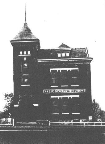 Freie Deutsche Schule ('Free German School') near Washington Square Davenport, Iowa. The school was operated by German immigrants in September 1852 and closed before 1900.